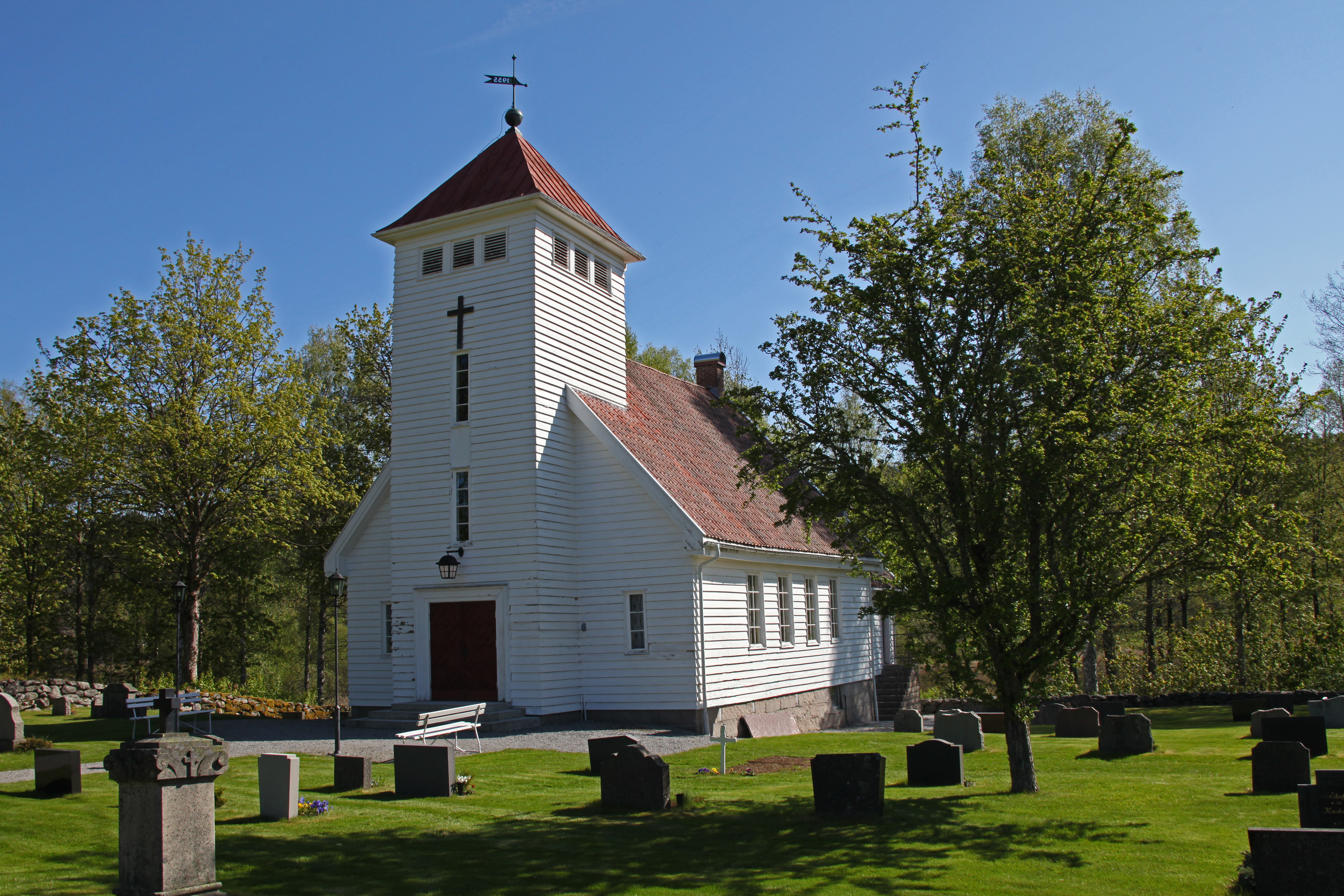 Picture of Søndre Enningdal church (Østfold - Norway)